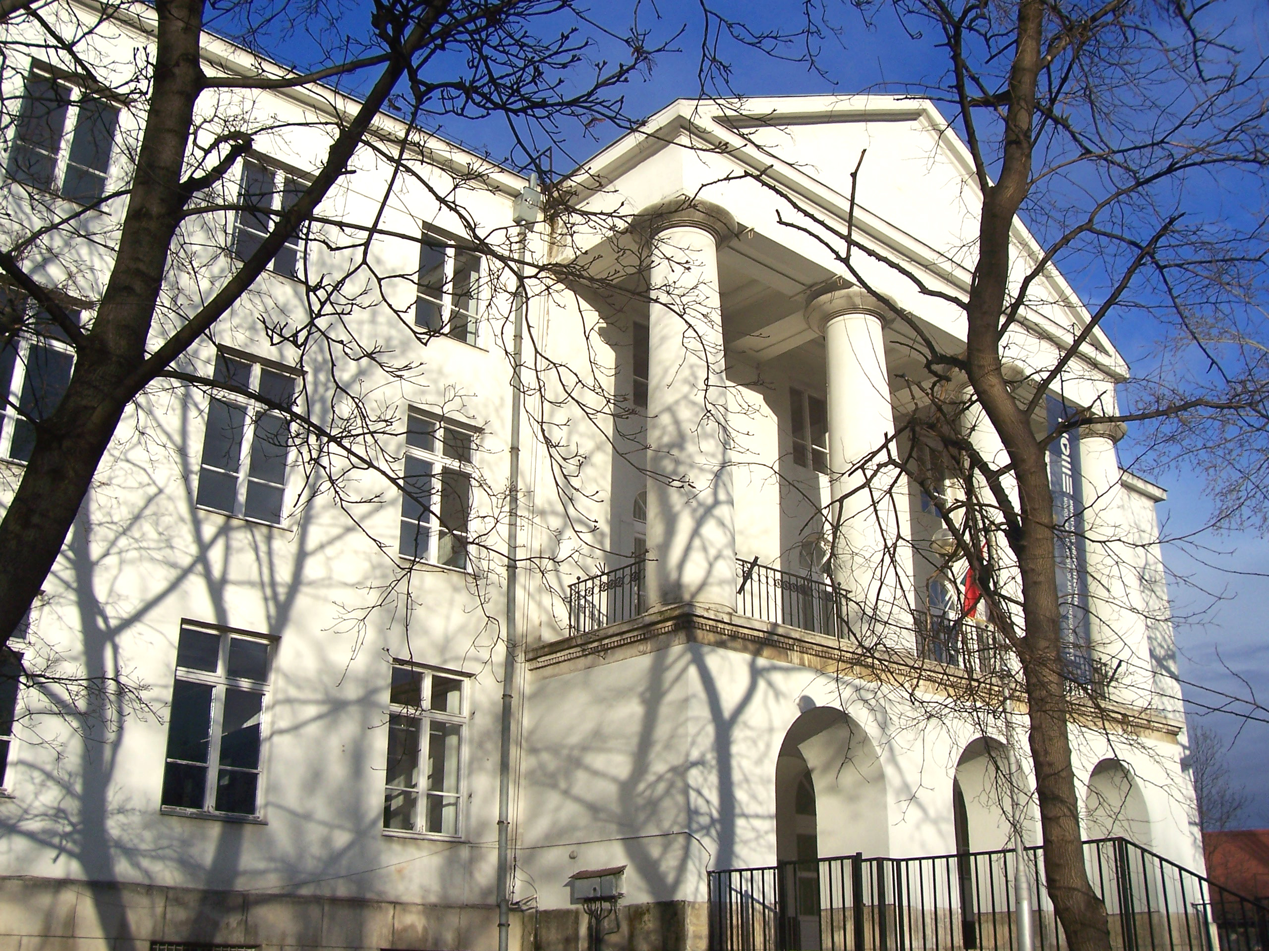 Moholy-Nagy University of Art and Design